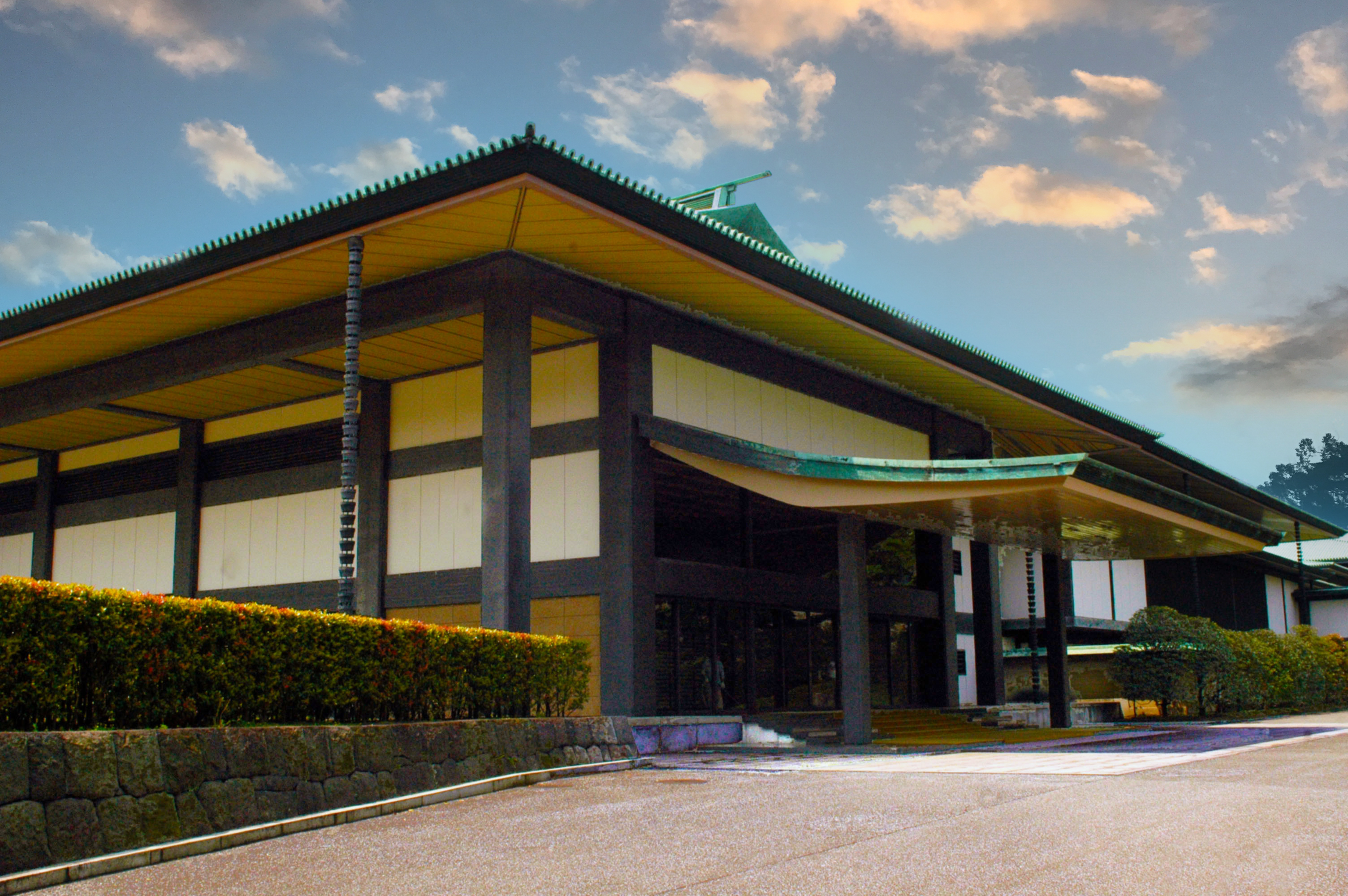 Front Kitakuruma-yose entrance for visiting dignitaries of the Chōwaden Reception Hall, Imperial Palace, Tokyo photo D Ramey Logan.